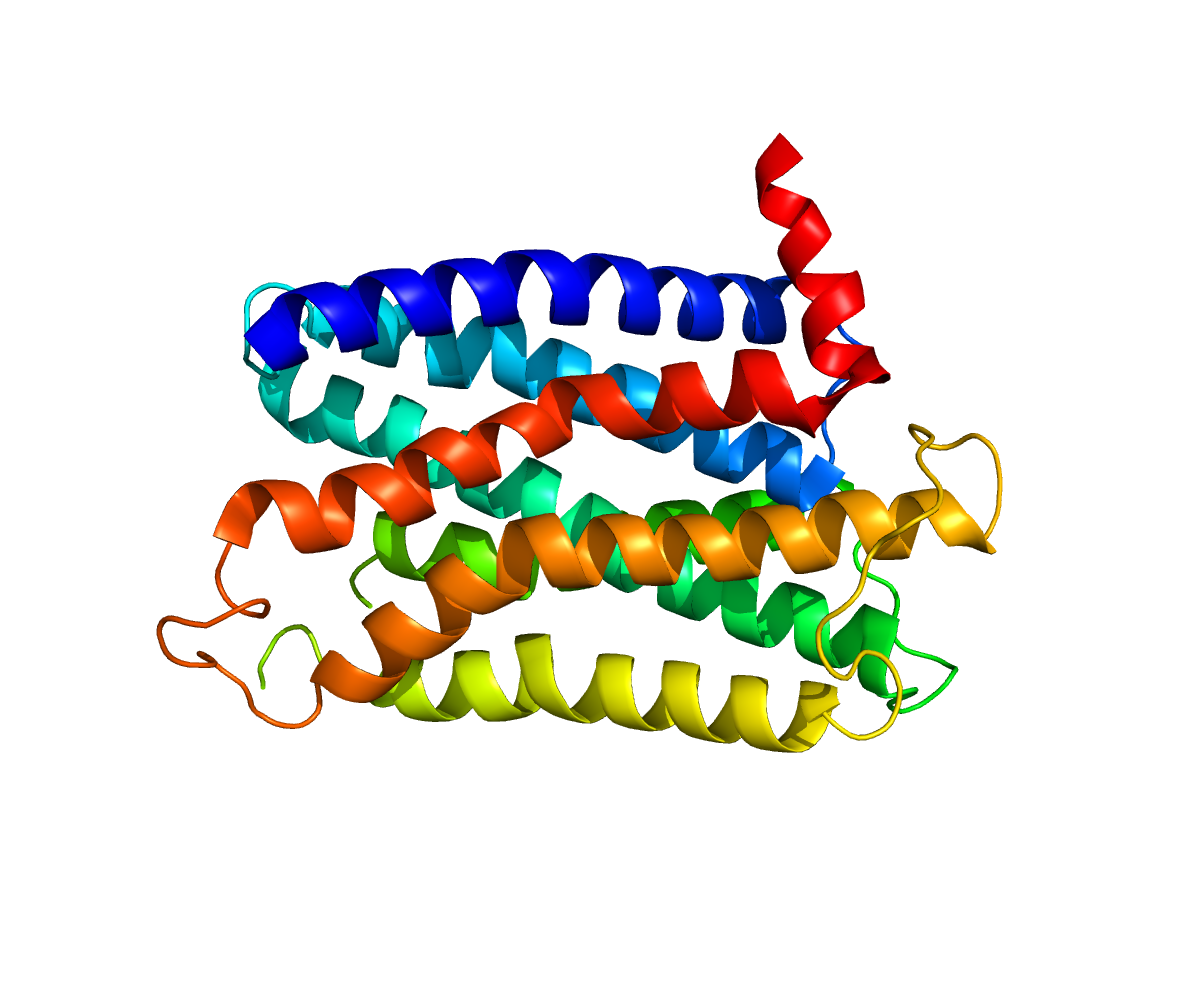 Structure of protein OPRD1.Based on PyMOL rendering of PDB 1OZC.